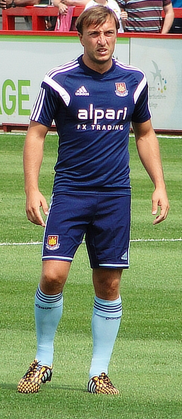 West Ham United's Mark Noble warming up before their friendly game at Broadhall Way, Stevenage against Stevenage, July 2014.